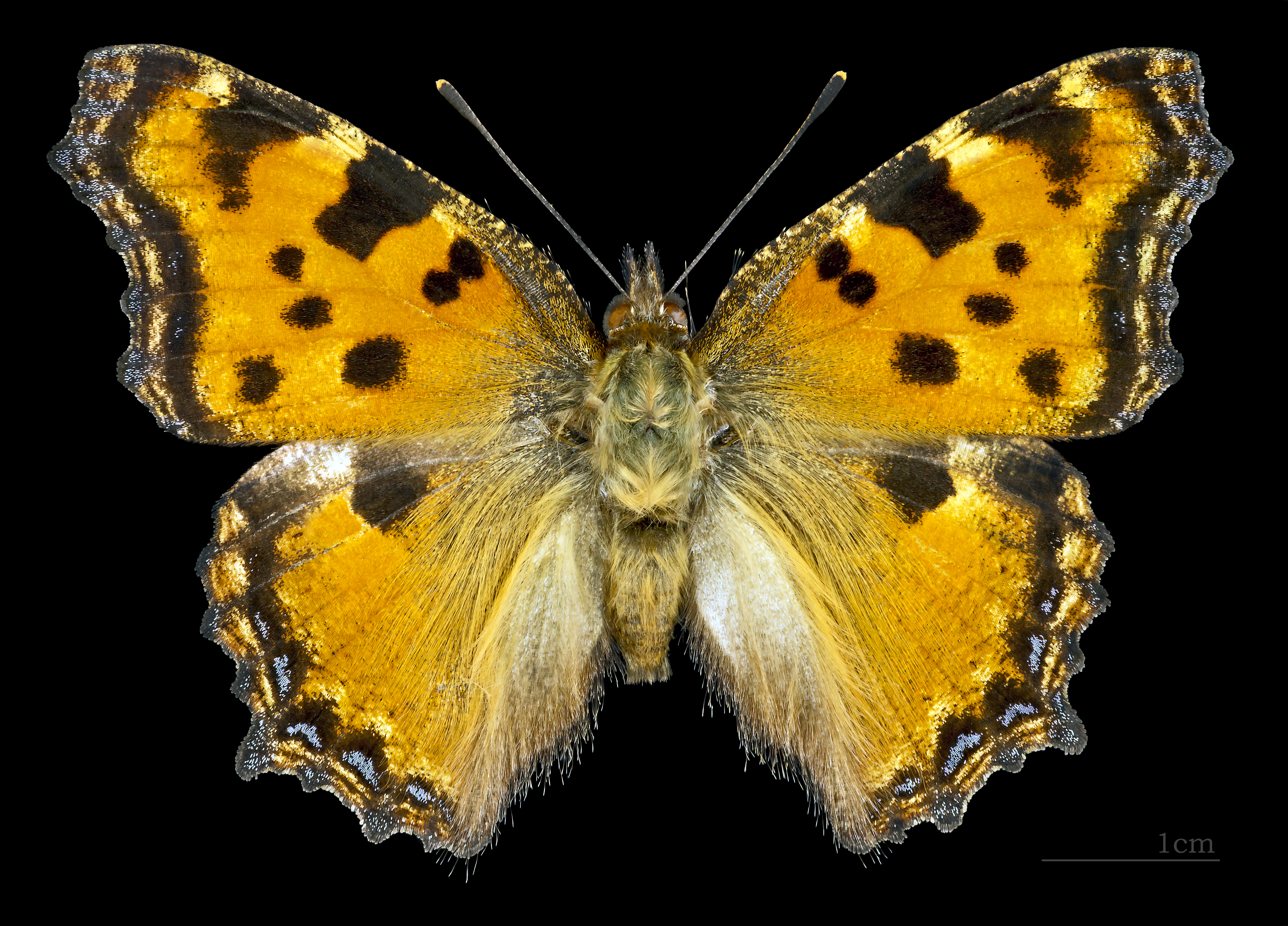 Blackleg tortoiseshell - Dorsal side